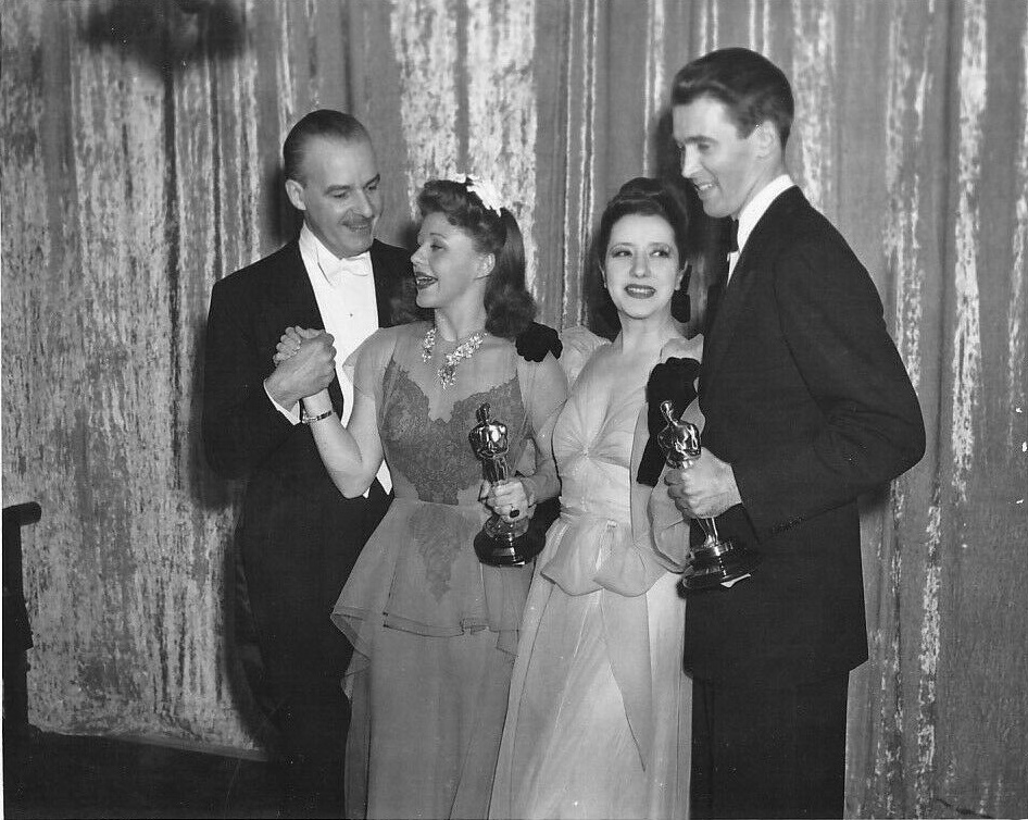 L-R: Alfred Lunt, Ginger Rogers, Lynn Fontanne & James Stewart during at the 13th Oscars (1941).